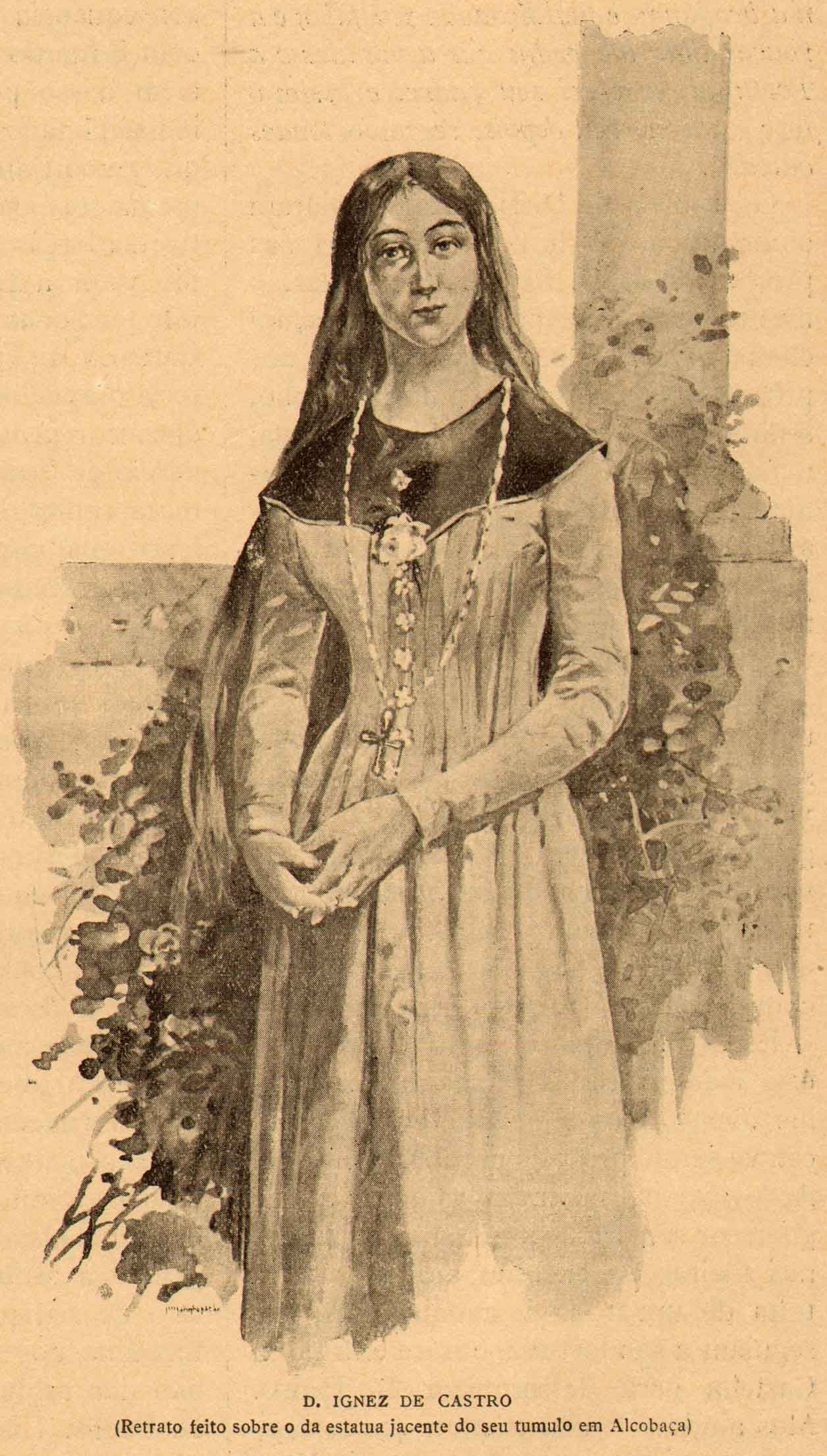 Illustration by Alfredo Roque Gameiro in the book História de Portugal, popular e ilustrada, by Manuel Pinheiro Chagas